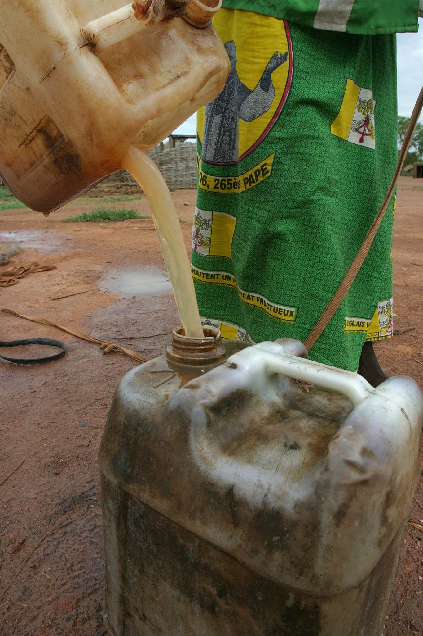 A woman is filling a UNICEF jerrycan at the Boromata well.